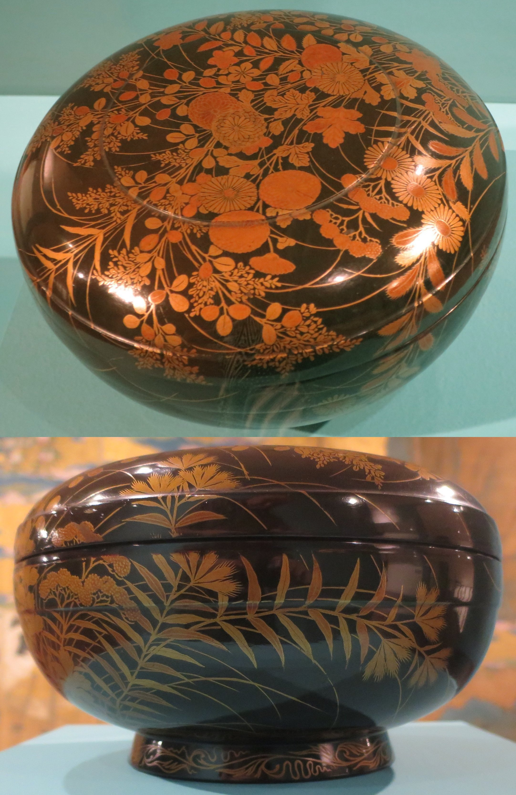 Covered box from Japan, Momoyama period, 1573-1615, lacquered wood, gold, Honolulu Museum of Art accession 4842.1